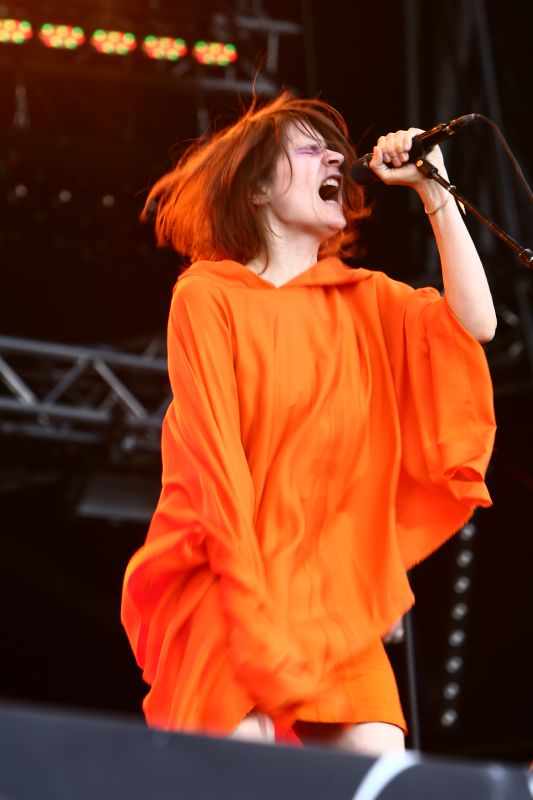 Camille at the Eurockéennes 2008